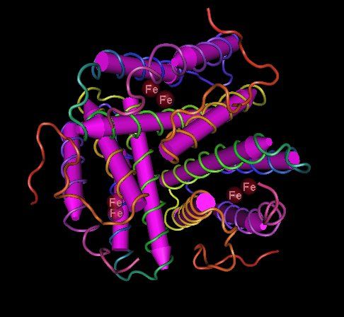 Image I generated from .cn3 file upload from public access at